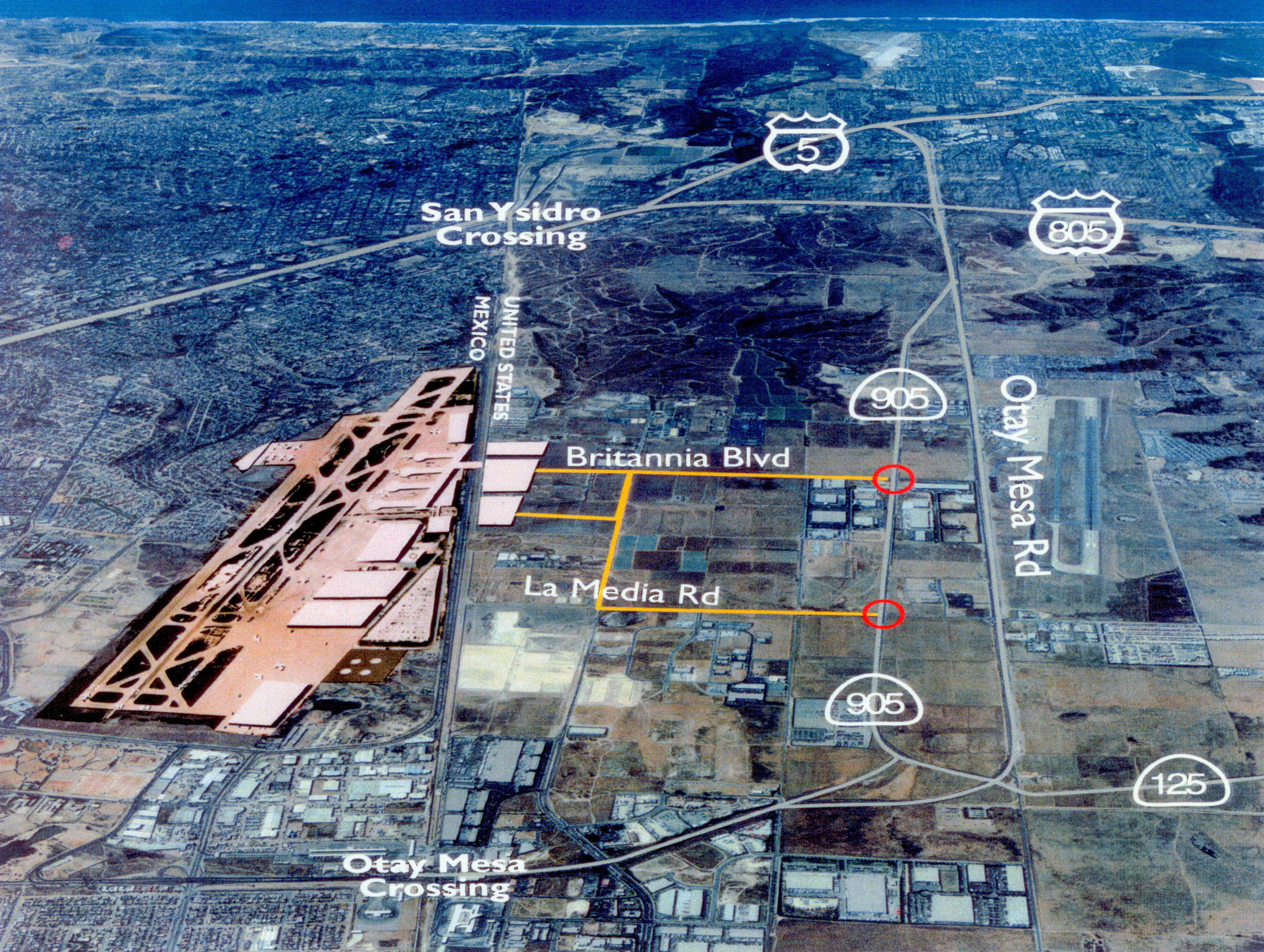 Artist rendering of a fully developed Tijuana airport with a cross-border terminal